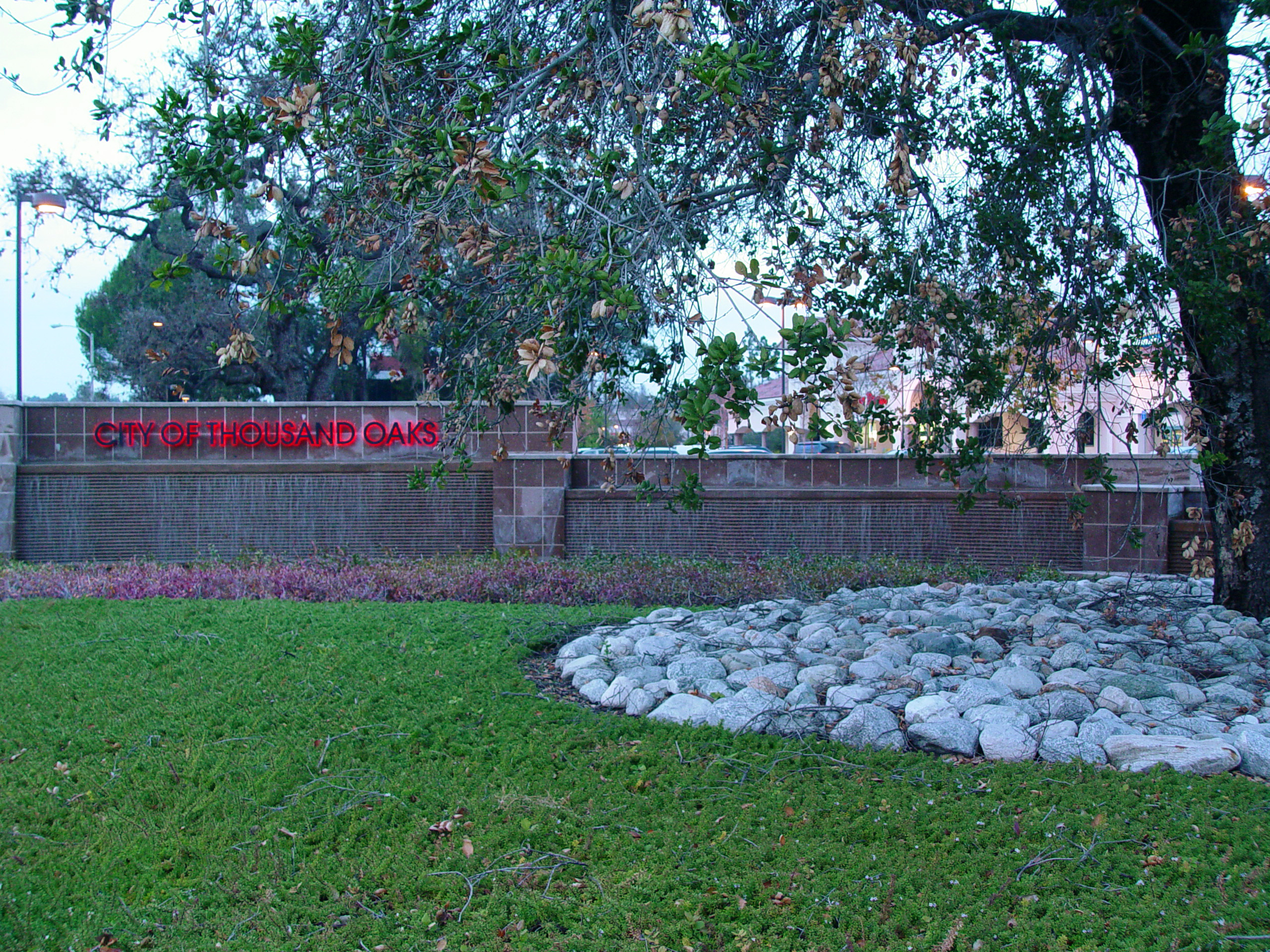 Sign for City of Thousand Oaks, California, USA